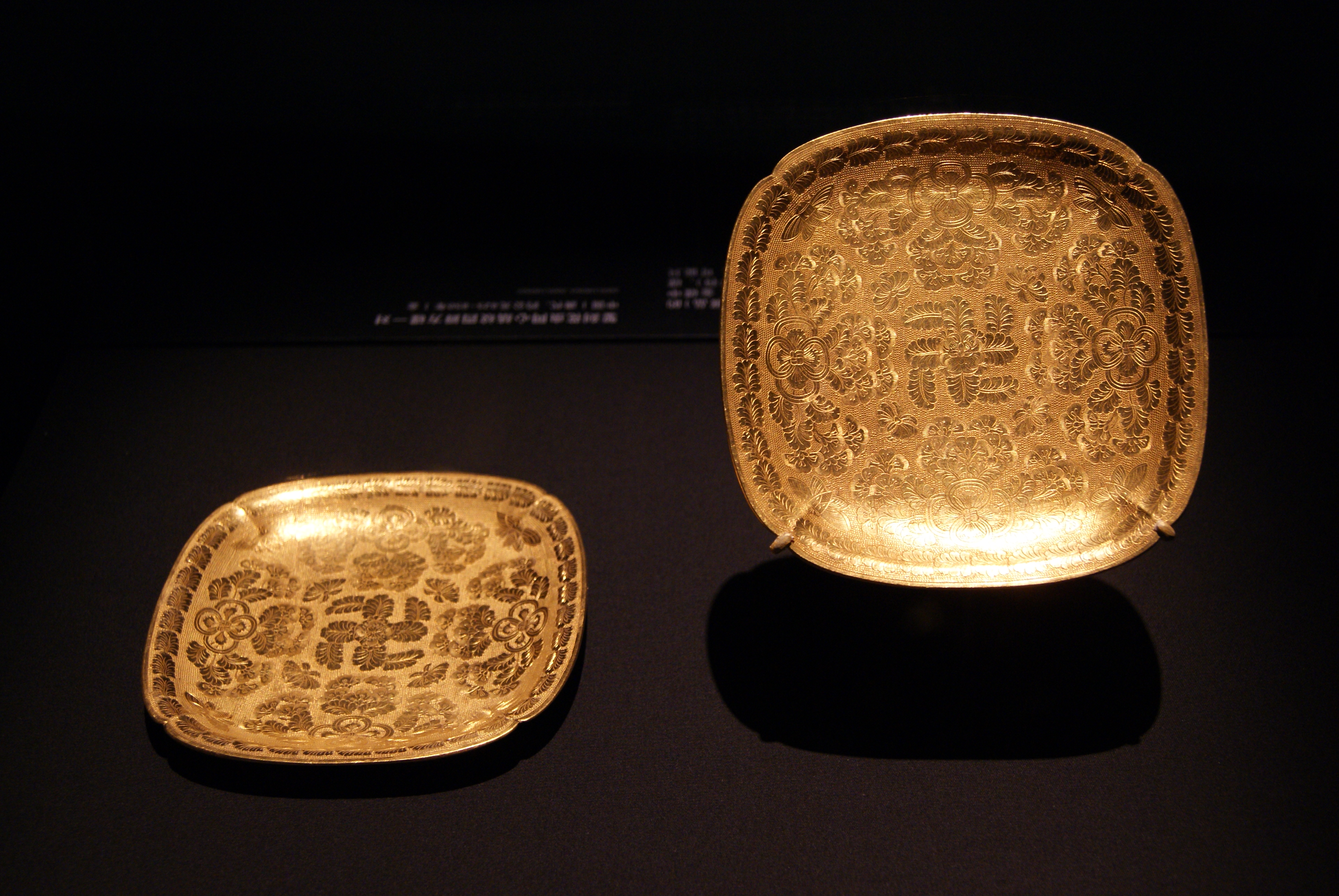 Part of the collection of artifacts from the Belitung shipwreck owned by the Sentosa Leisure Group and the Government of Singapore, photographed while displayed at an exhibition called Shipwrecked: Tang Treasures and Monsoon Winds at the ArtScience Museum, Marina Bay Sands, Singapore, from 19 February 2011 to 31 July 2011.